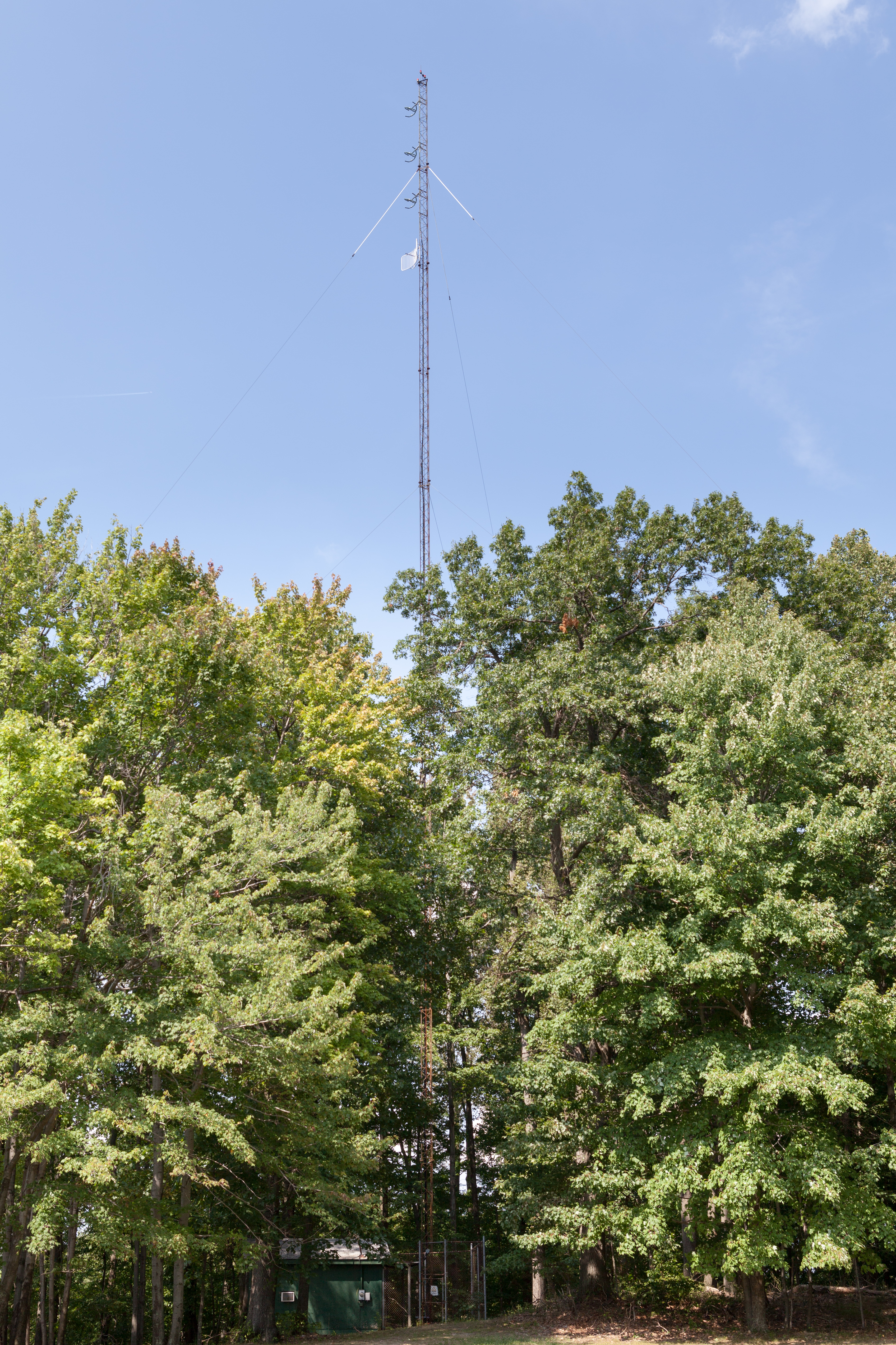 WZST-FM mast, near 1989 Grafton Road, Template:Morgantown, West Virginia